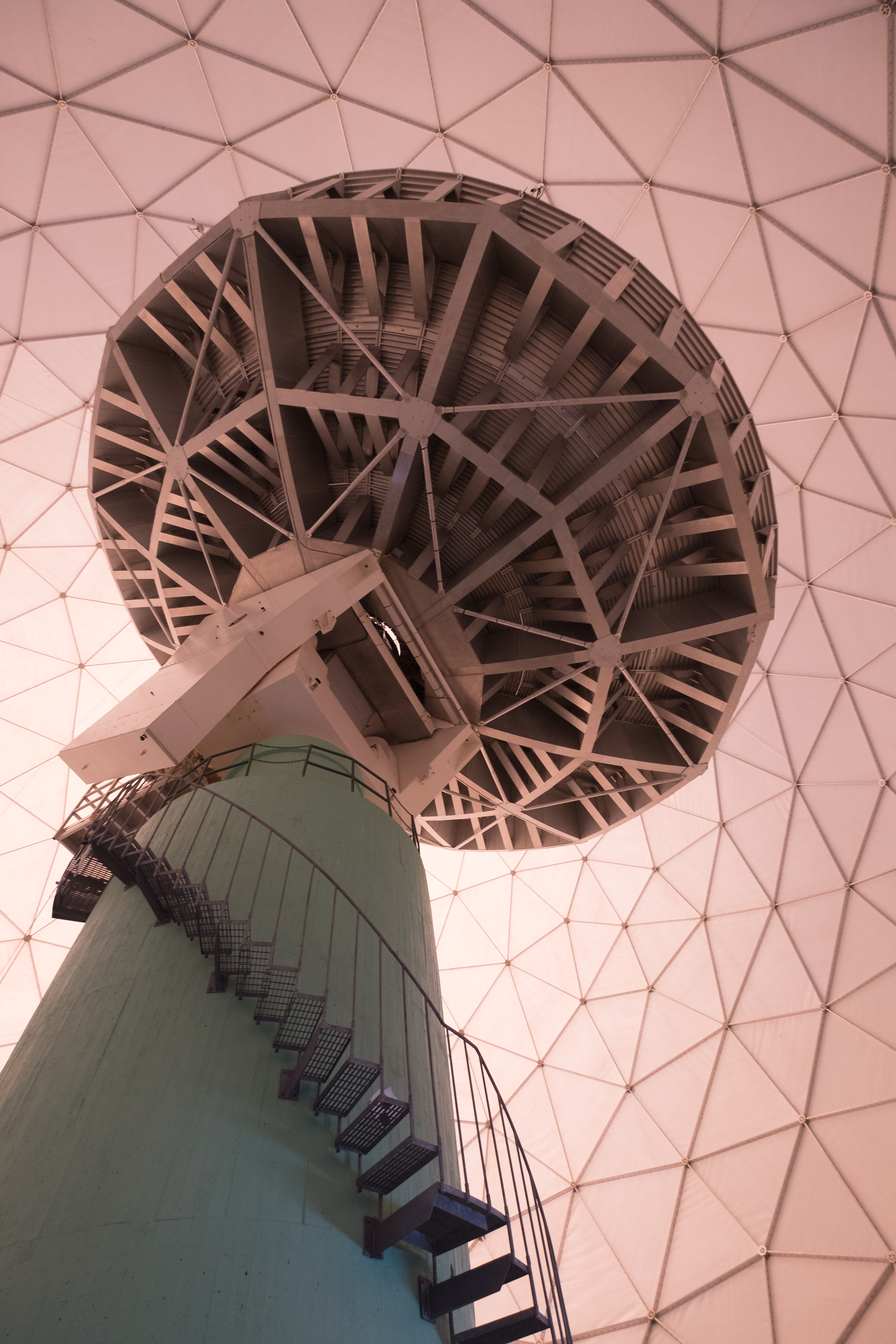 20m radio antenna inside the dome at Onsala Space Observatory, Sweden